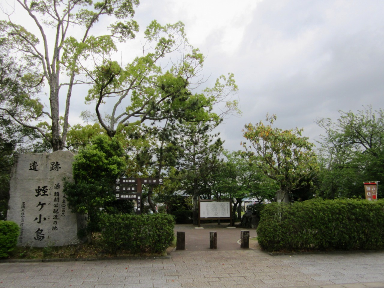 Hirugakojima where Minamoto no Yoritomo was banished to in Izunokuni, Shizuoka.